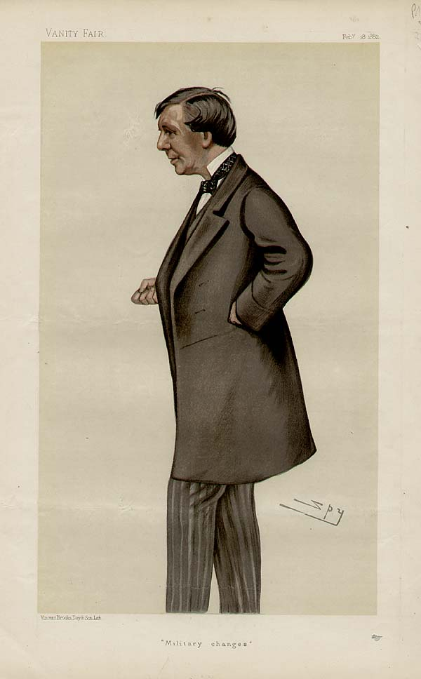 Caricature of John Holms MP. Caption read "Military changes".